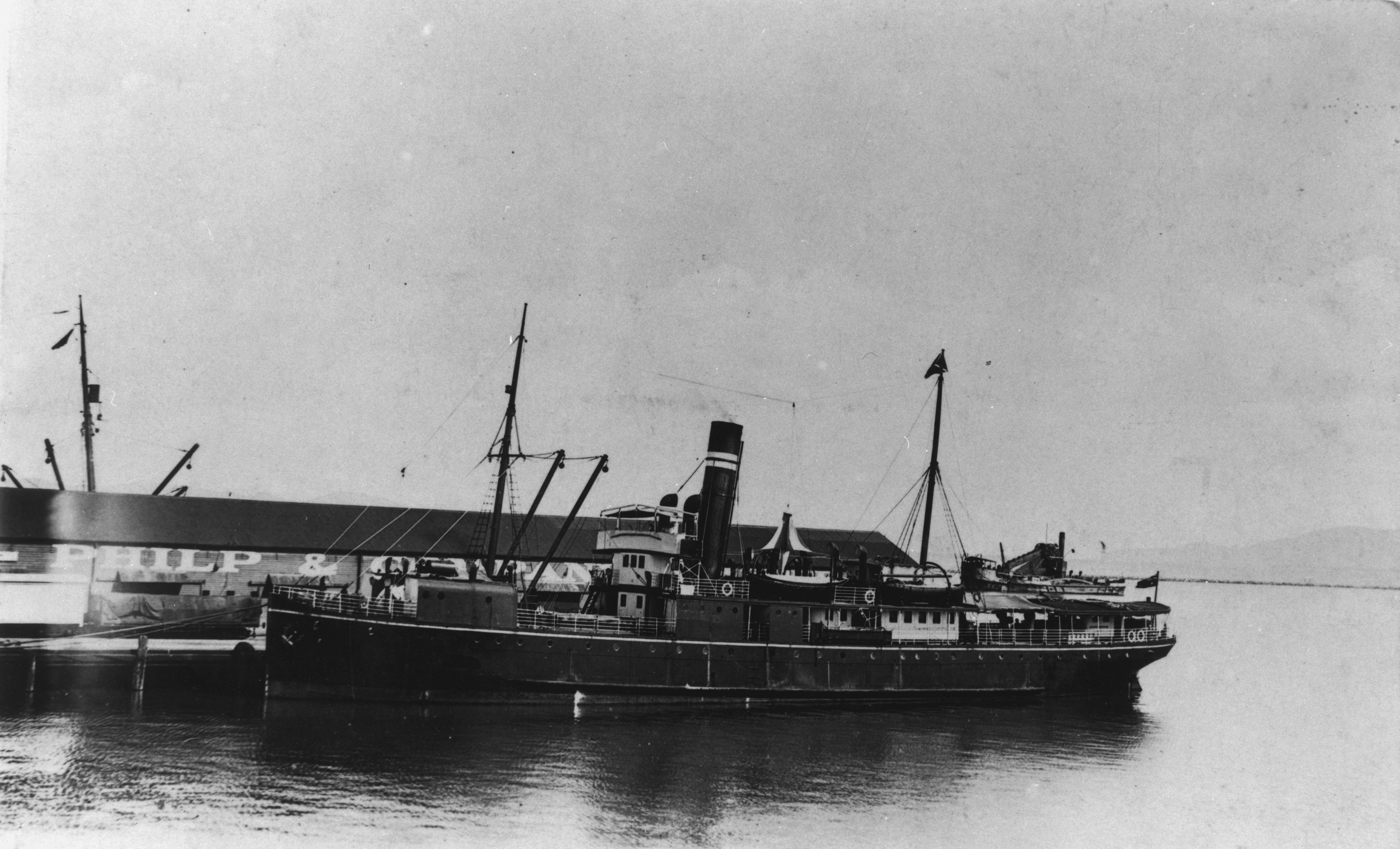 Kuranda (ship). Plied between Townsville and Cooktown calling at Palm Island, Lucinda, Mourilyan Harbour, Cairns, Port Douglas and finally Cooktown. After receiving passengers and mail the vessel left Townsville at 1 p.m. on Mondays, arriving at Cooktown on Wednesdays. It departed at 4 p.m. the same day and arrived back in Townsville on Fridays at 4 p.m. after calling at all ports mentioned. (Information supplied with photograph).